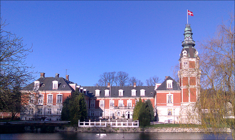 Hvedholm Castle december 2006, Kmilling